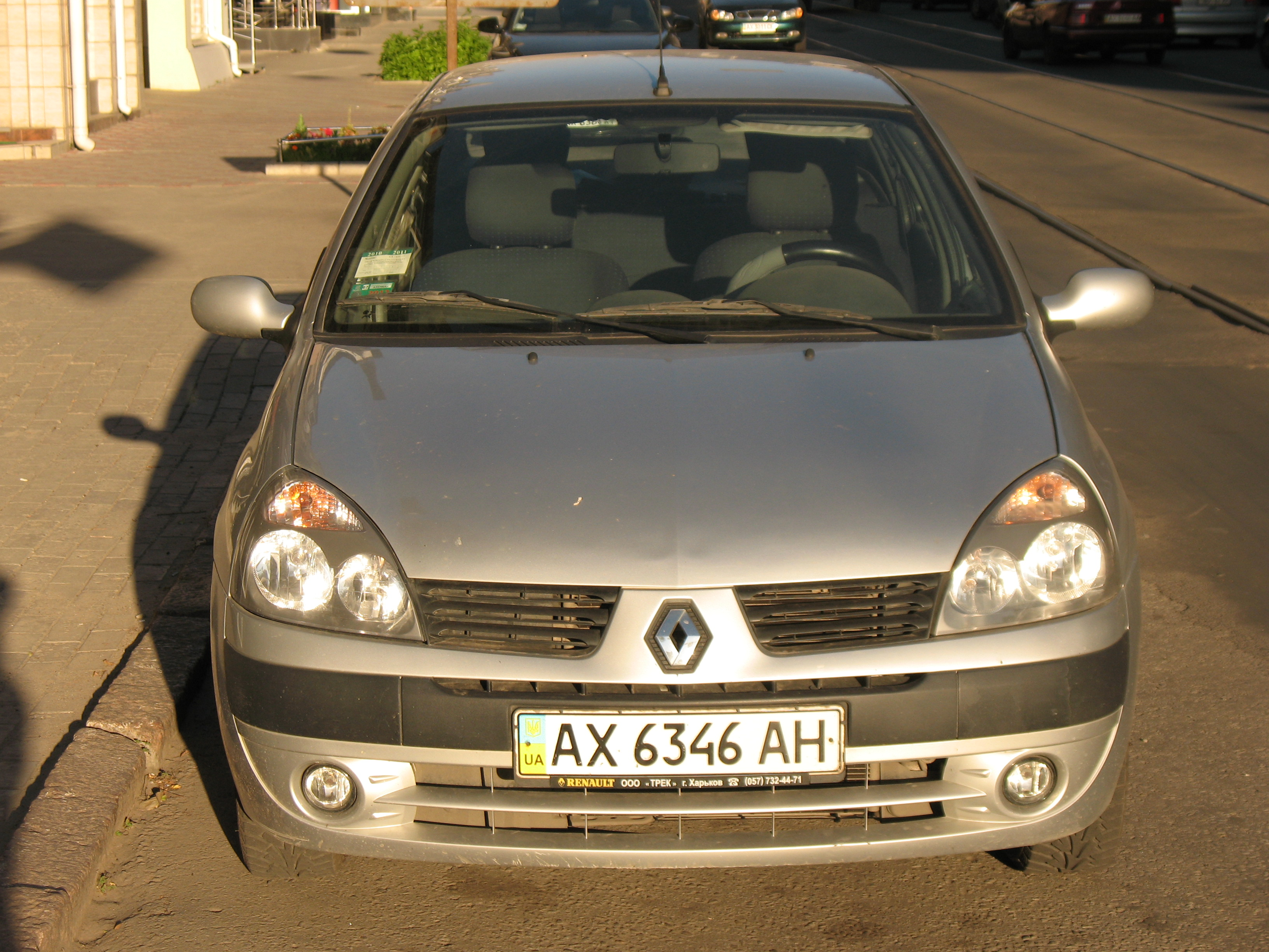 Renault Clio.